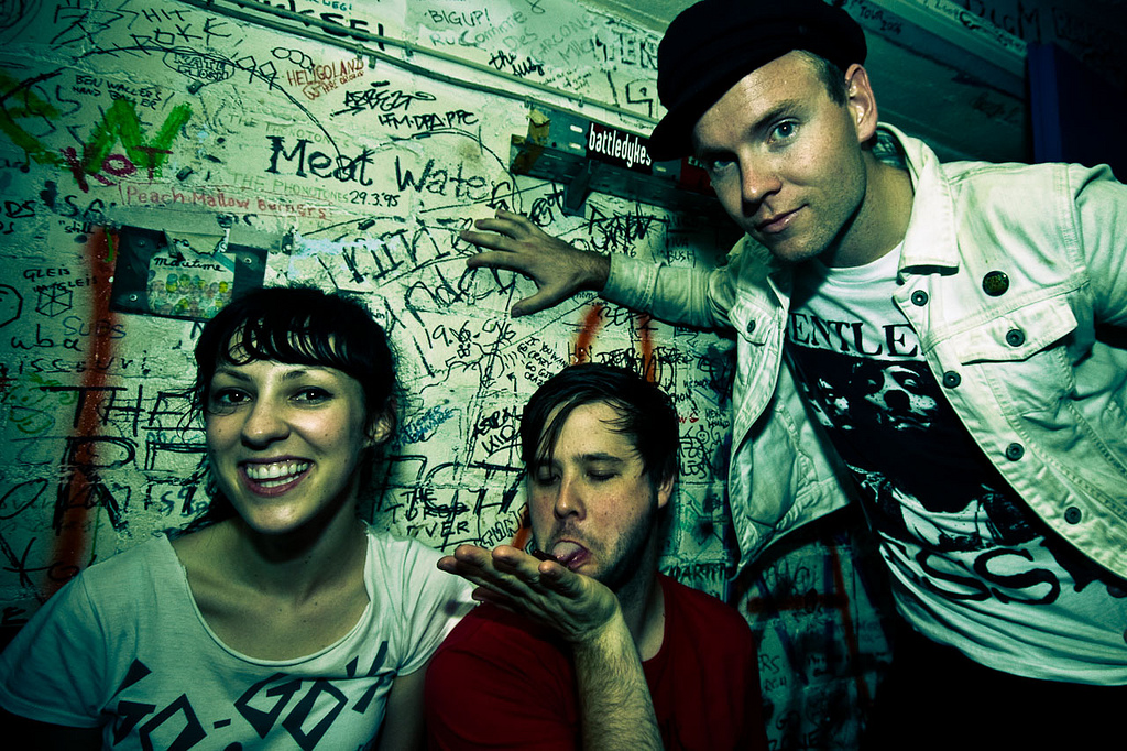 Gleis 22, Münster